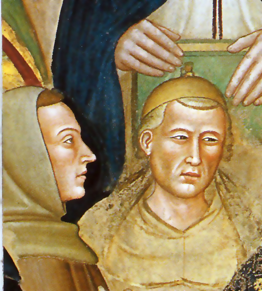 William of Occam and friend.